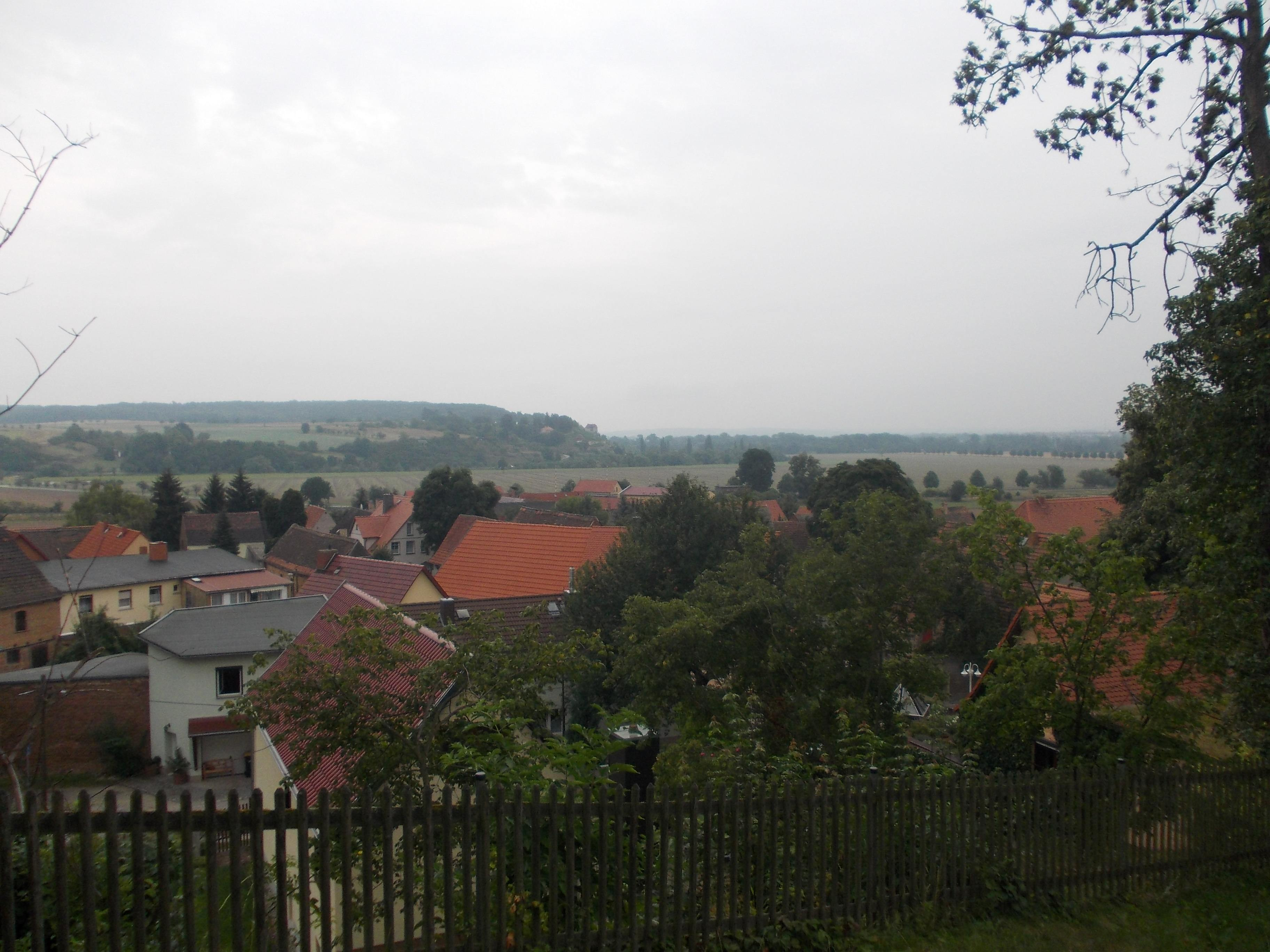 View from church hill in Kleinjena (Naumburg, district: Burgenlandkreis, Saxony-Anhalt)